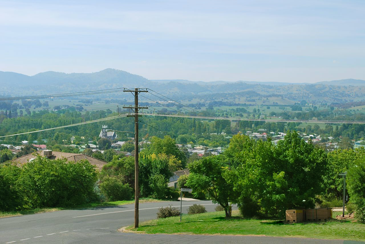 Tumut, New South Wales as seen from Rotary Lookout